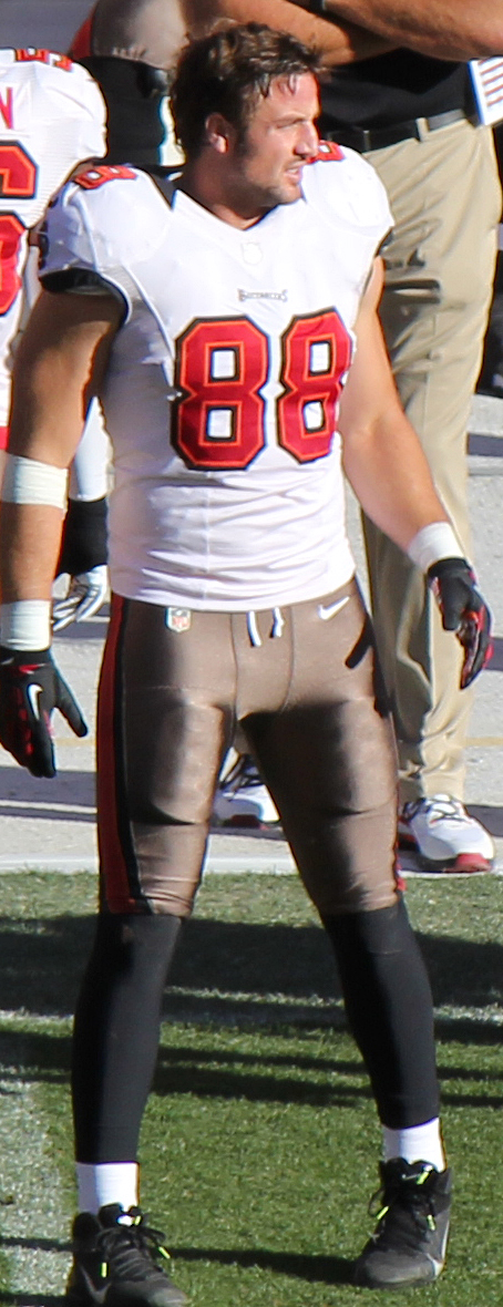 Luke Stocker, a player on the National Football League.